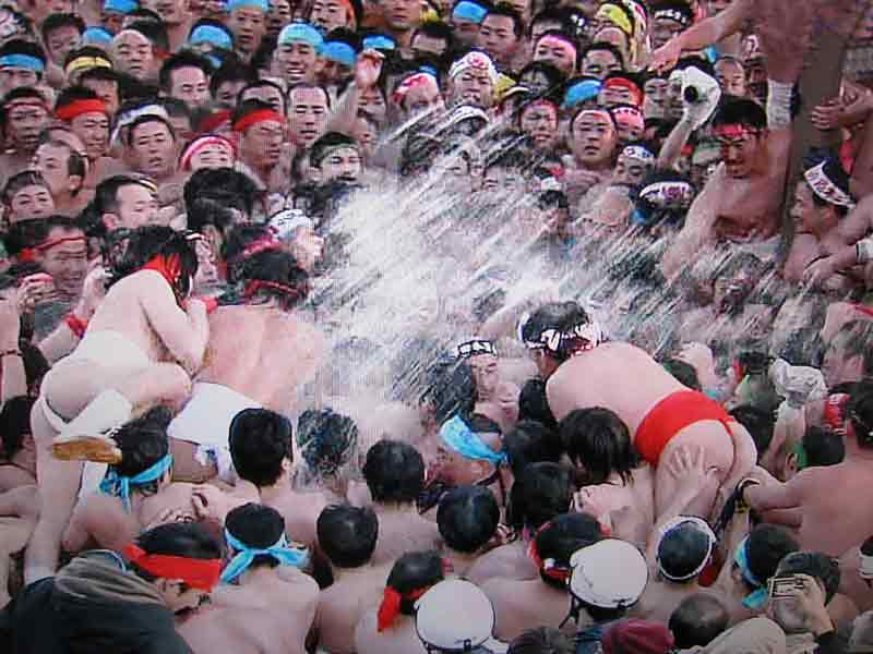 This image is known as the festival of the shrine kounomiya. Inazawa City, Aichi Prefecture.